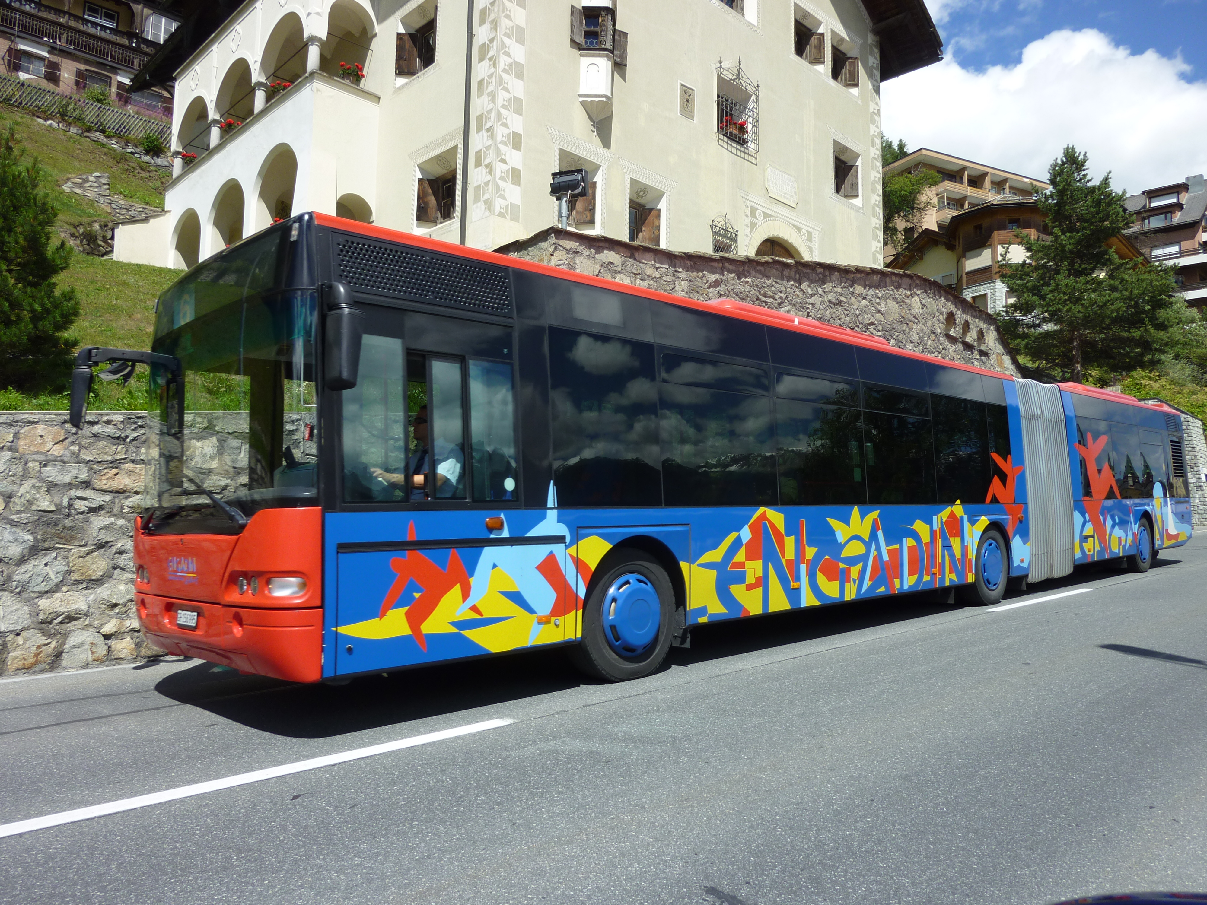 Neoplan Centroliner N4421 bus (reg. GR 156 995) in St. Moritz, Switzerland. Built 2001, Engadin Bus operator.